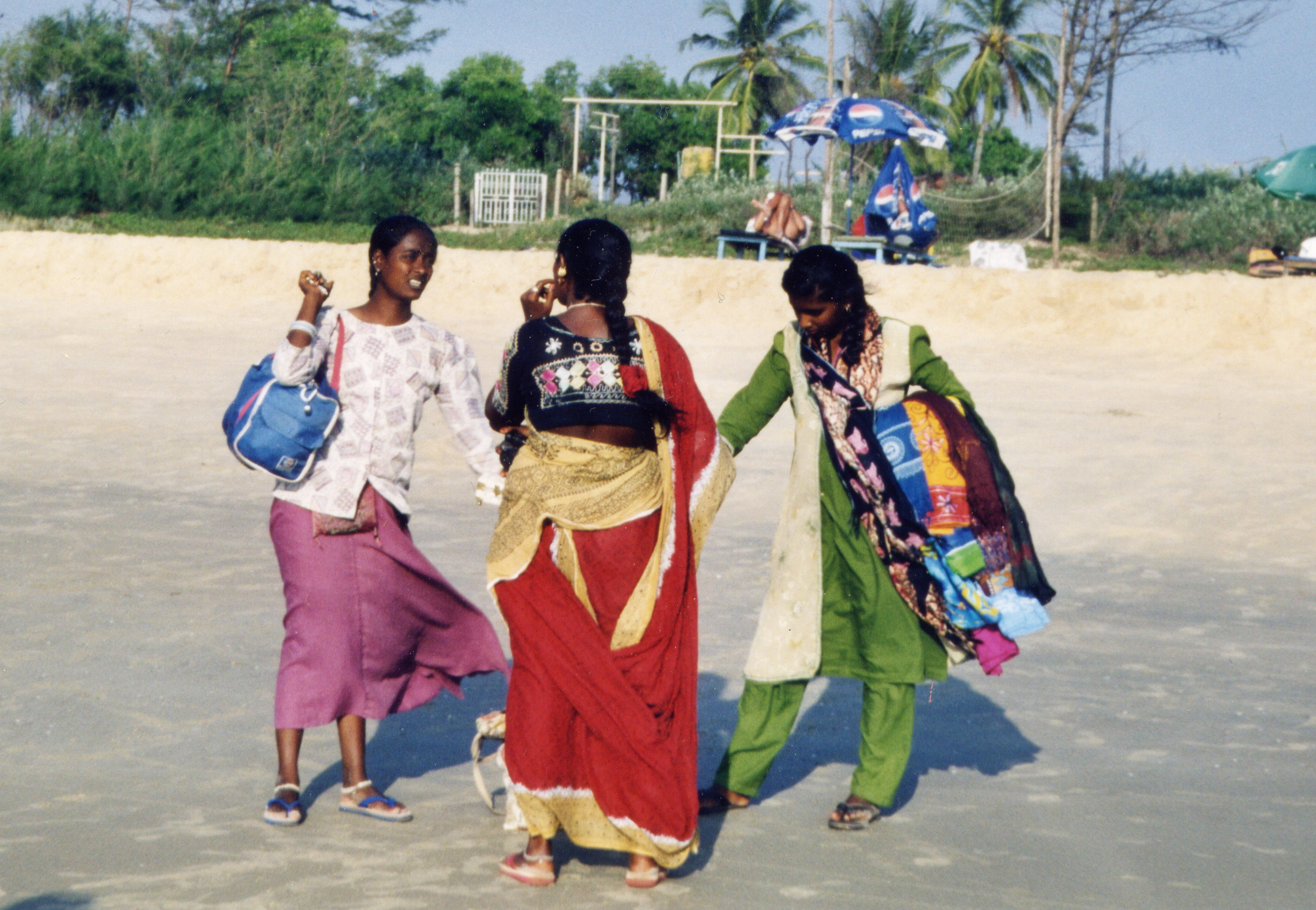 Beach traders wearing (left to right) skirt and blouse, sari, and salwar kameez in Goa Händlerinnen (von links nach rechts) mit Rock und Bluse, im Sari und in Salwar Kameez in Goa Prodavačky sárí v Goi